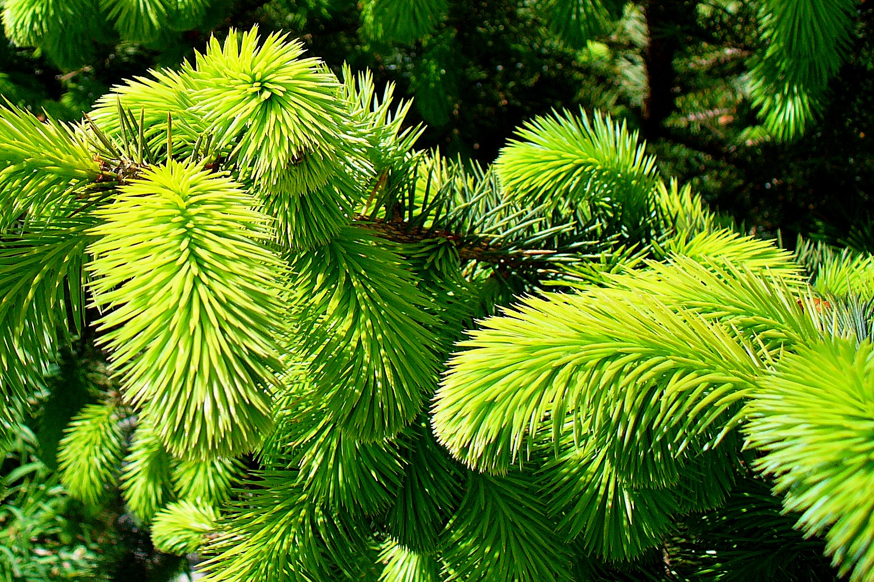 Picea sitchensis new foliage in spring, Ocean Shores, Washington.